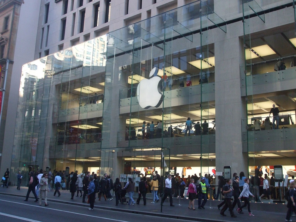 Apple Store, Sydney.